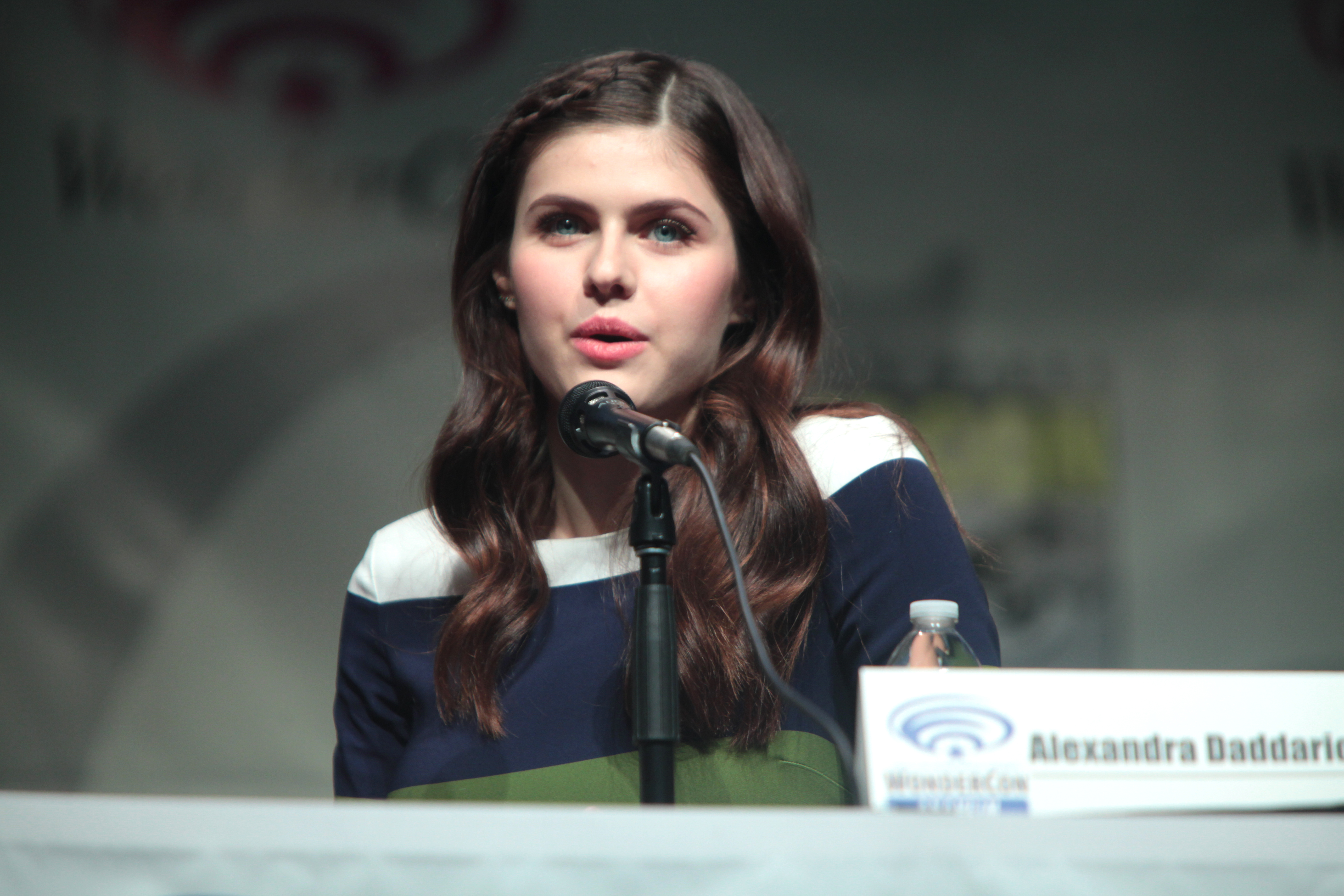 Alexandra Daddario speaking at the 2015 Wondercon, for "San Andreas", at the Anaheim Convention Center in Anaheim, California.